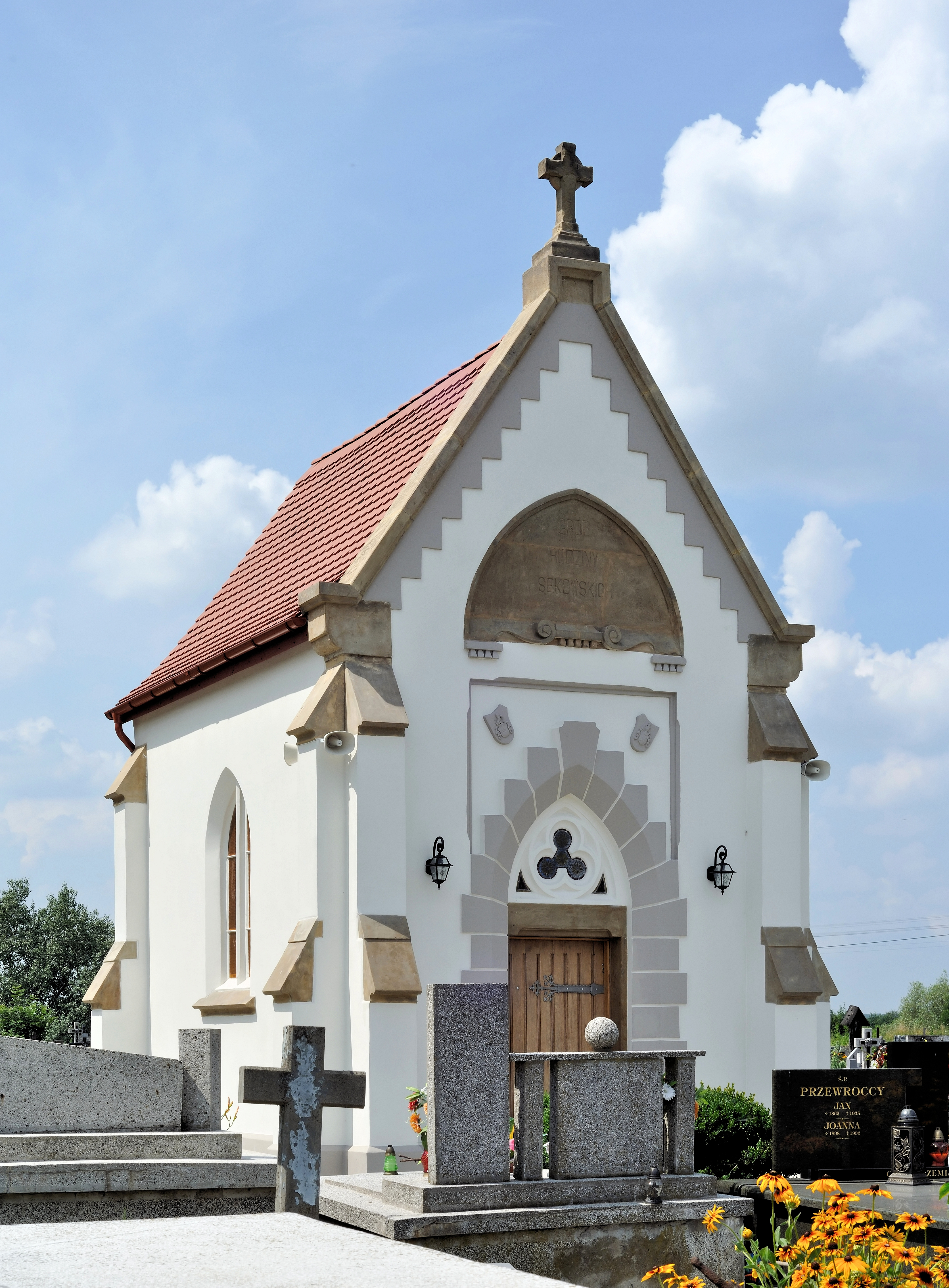 Tomb chapel of family Sękowski in the Rzochów cemetery